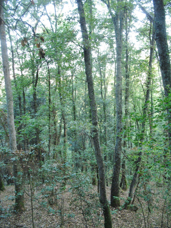 Young forest of Quercus pubescens in Catalonia, Spain